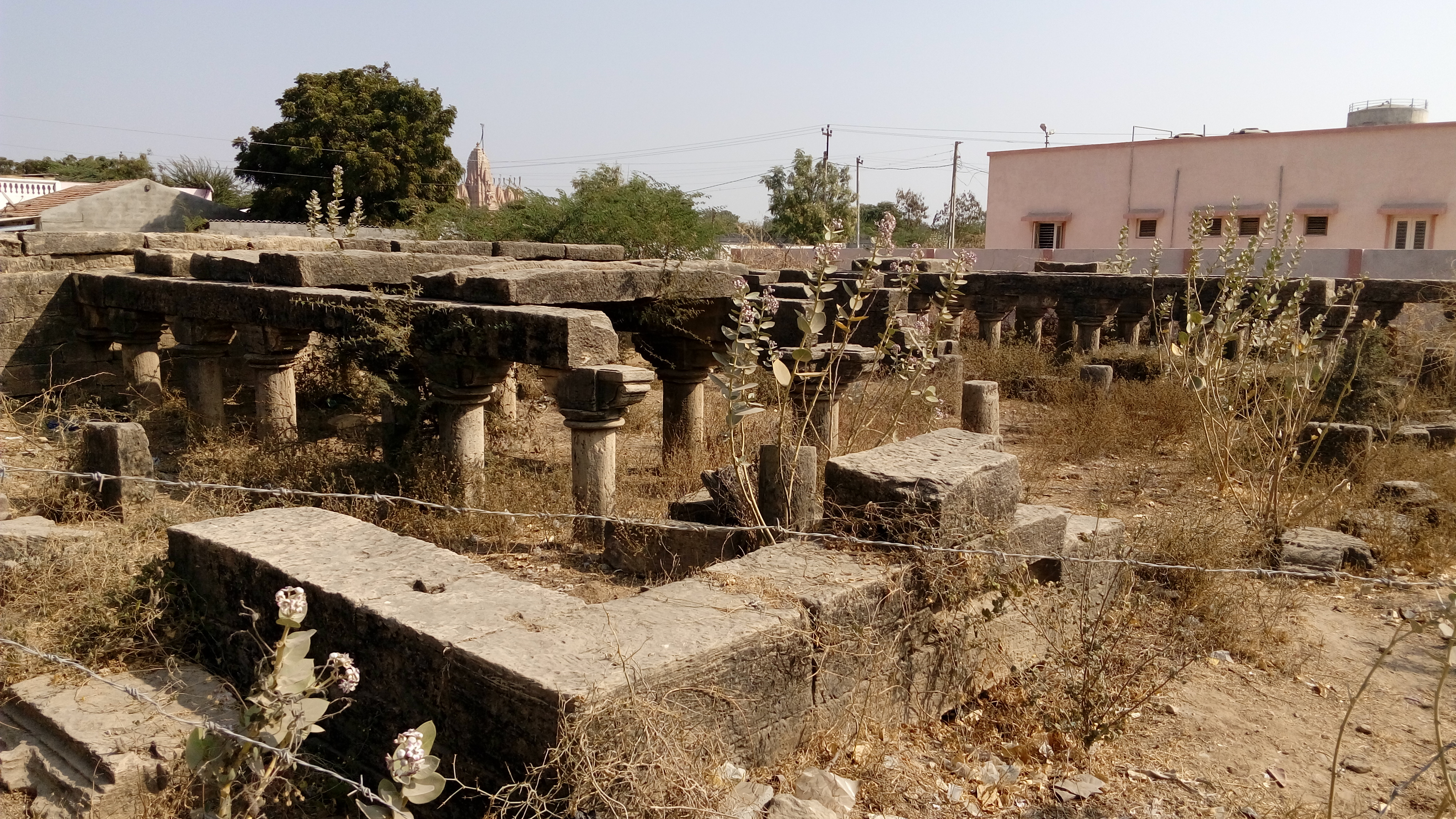 Ruins of Jagdusha Palace/Large Mosque at Bhadreshwar, Kutch, Gujarat, India